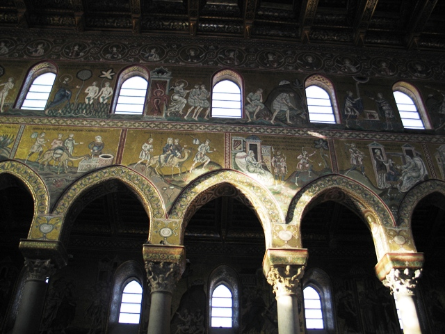 Cathedral (Monreale) - Inside